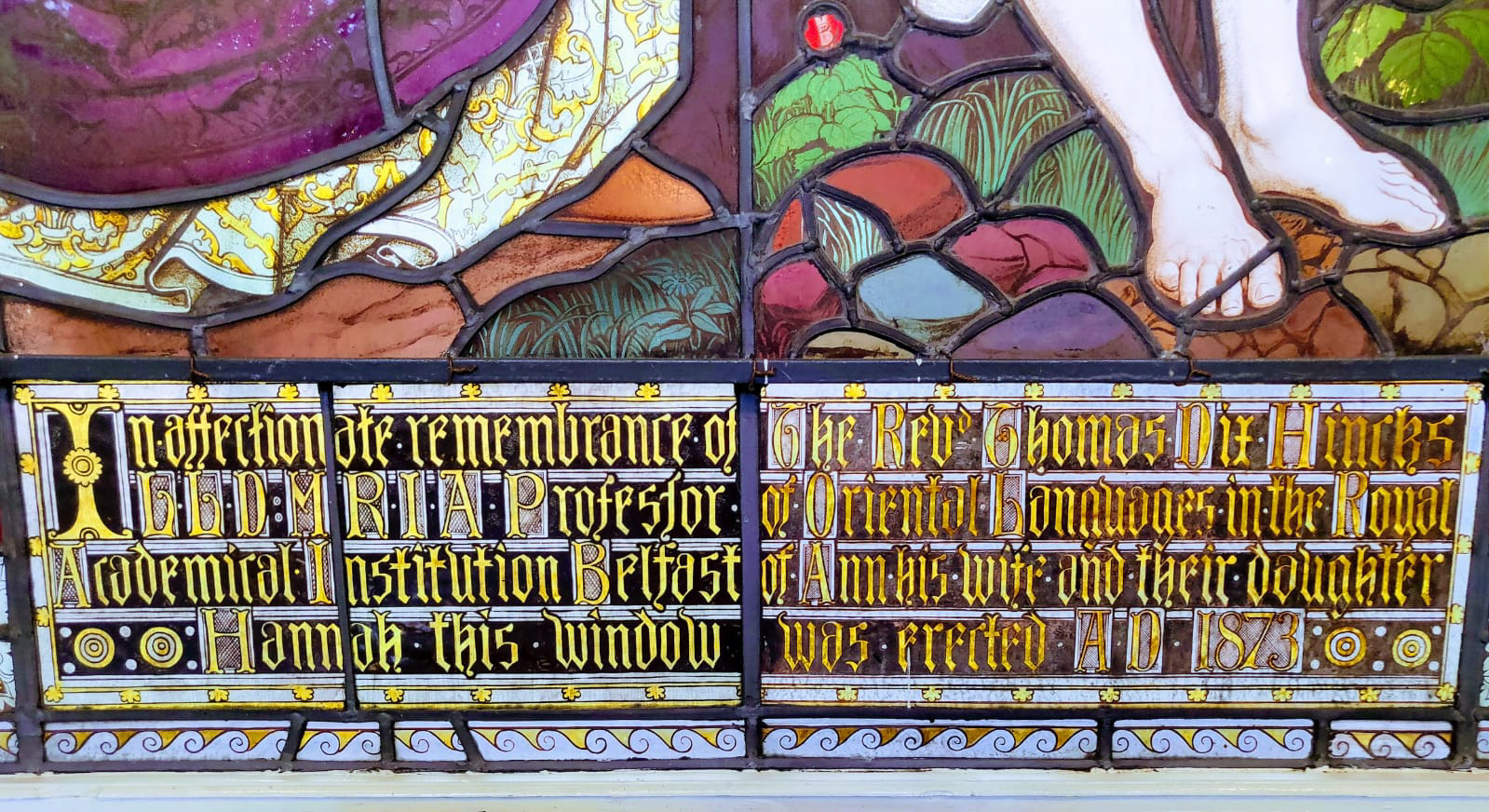 Stained glass window dedication to Thomas Dix Hincks from his wife & daughter. Location: First Presbyterian Church, Rosemary Street, Belfast, N. Ireland. TEXT: In Affectionate remembrance of the Revd. Thomas Dix Hincks LLD MRIA Professor of Oriental Languages in the Royal Academical Institution Belfast of Ann his wife and their daughter Hannah this window was erected AD 1873